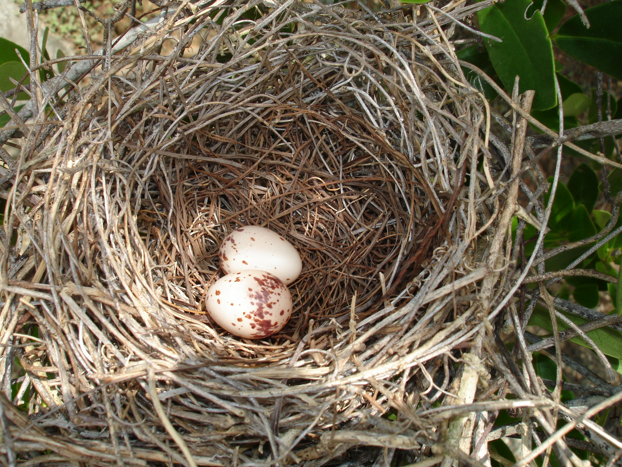 This a digital photo of the nest of a Grey Kingbird taken on the shore of Waterlemon Bay on Saint John Island in the Caribbean.